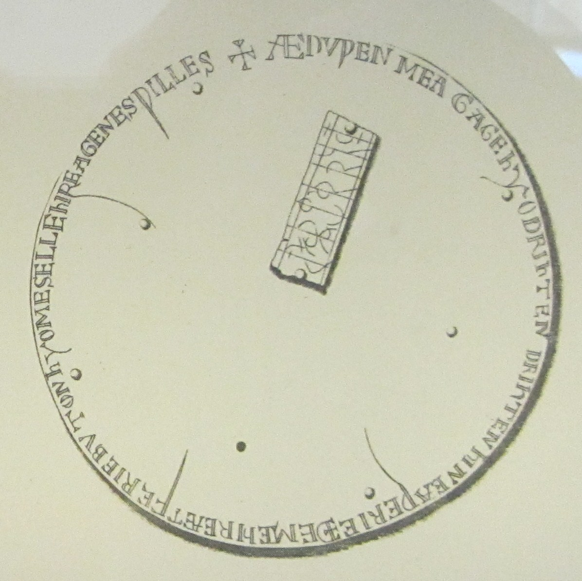 Drawing by George Hickes (1642-1715) of the back of Ædwen's brooch, an 11th century Anglo-Saxon silver disc brooch discovered by a ploughman in Sutton, Isle of Ely, Cambridgeshire in 1694. The circular inscription around the edge reads ÆDVǷEN ME AG AGE HYO DRIHTEN / DRIHTEN HINE AǷERIE ÐE ME HIRE ÆTFERIE / BVTON HYO ME SELLE HIRE AGENES ǷILLES meaning Ædwen owns me, may the Lord own her. May the Lord curse him who takes me from her, unless she gives me of her own free will. Inscribed on the silver strip are seven cryptic runic or pseudo-runic letters, the meaning of which is not understood. British Museum (1951,1011.1).